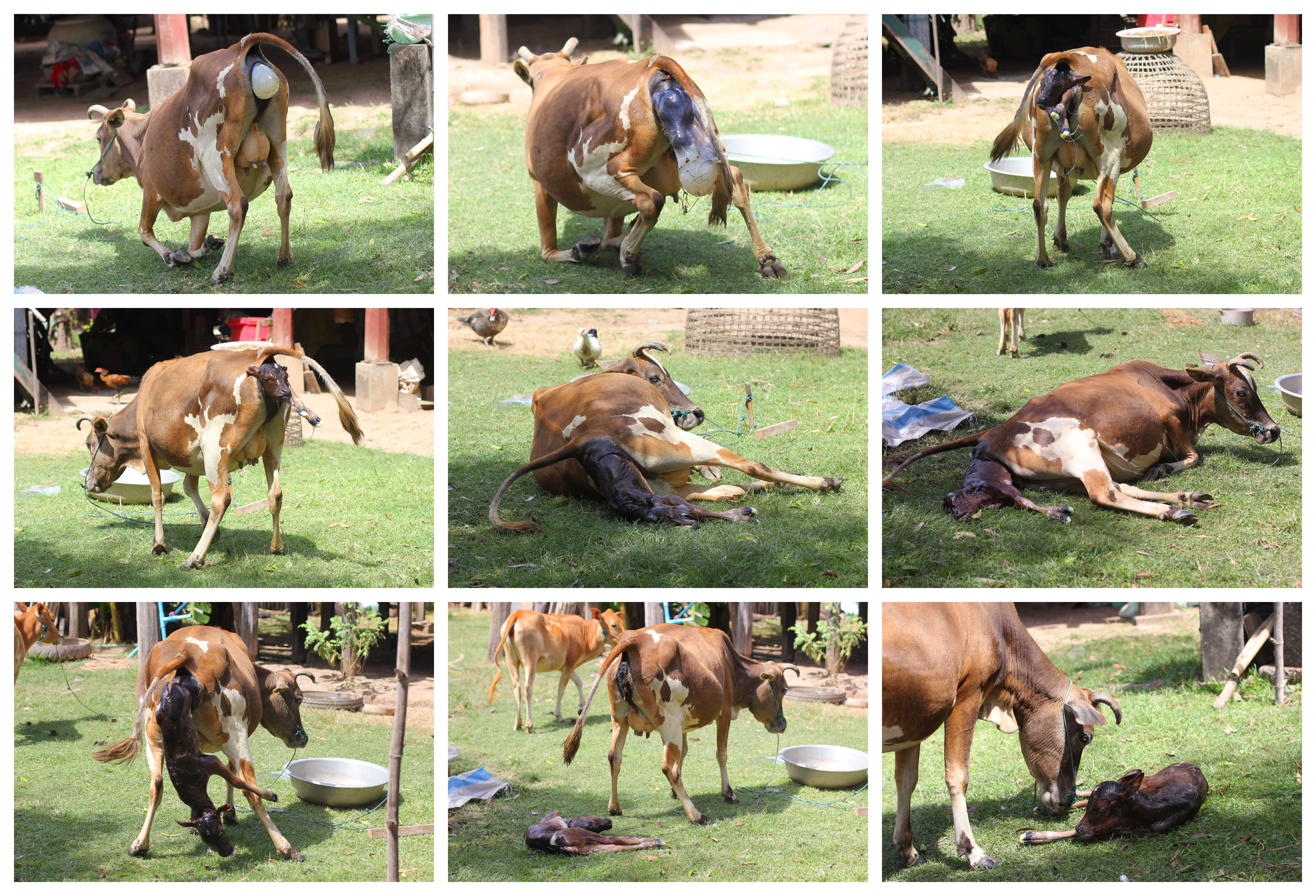 Cow giving birth to a calf, in a garden in Laos. Step by step, montage in 9 pictures. 1. Kneeling cow. At the beginning, the amniotic sac comes out of the vulva under the raised tail. 2. The head of the calf appear out of the vulva after the two first legs in front. 3. View from behind. The head of the calf appear out of the vulva after the two first legs. 4. As the head of the calf comes out of the vulva, the rest of the body hidden inside the mother creates the strange illusion of a cow with two heads. 5. Lying cow. The body of the calf is half out of the vulva. 6. The two front legs are visible, while the two back legs are still inside. No human support will be necessary during the process. 7. The body of the calf is nearly entirely extracted, only the two back legs are still inside. The last step will be done with the gravity force, the weight of the body helping in the operation. Finally the baby is going to fall down from the vulva to the ground. 8. The new born is lying on the ground, just after falling down from the mother's vagina. The animal seems inanimated, but it is well alive, and will be able to stand on its 4 legs in a few minutes. View from behind, a drop of biological liquid sinks from the vulva. 9. Cow meeting her new born calf awaking.